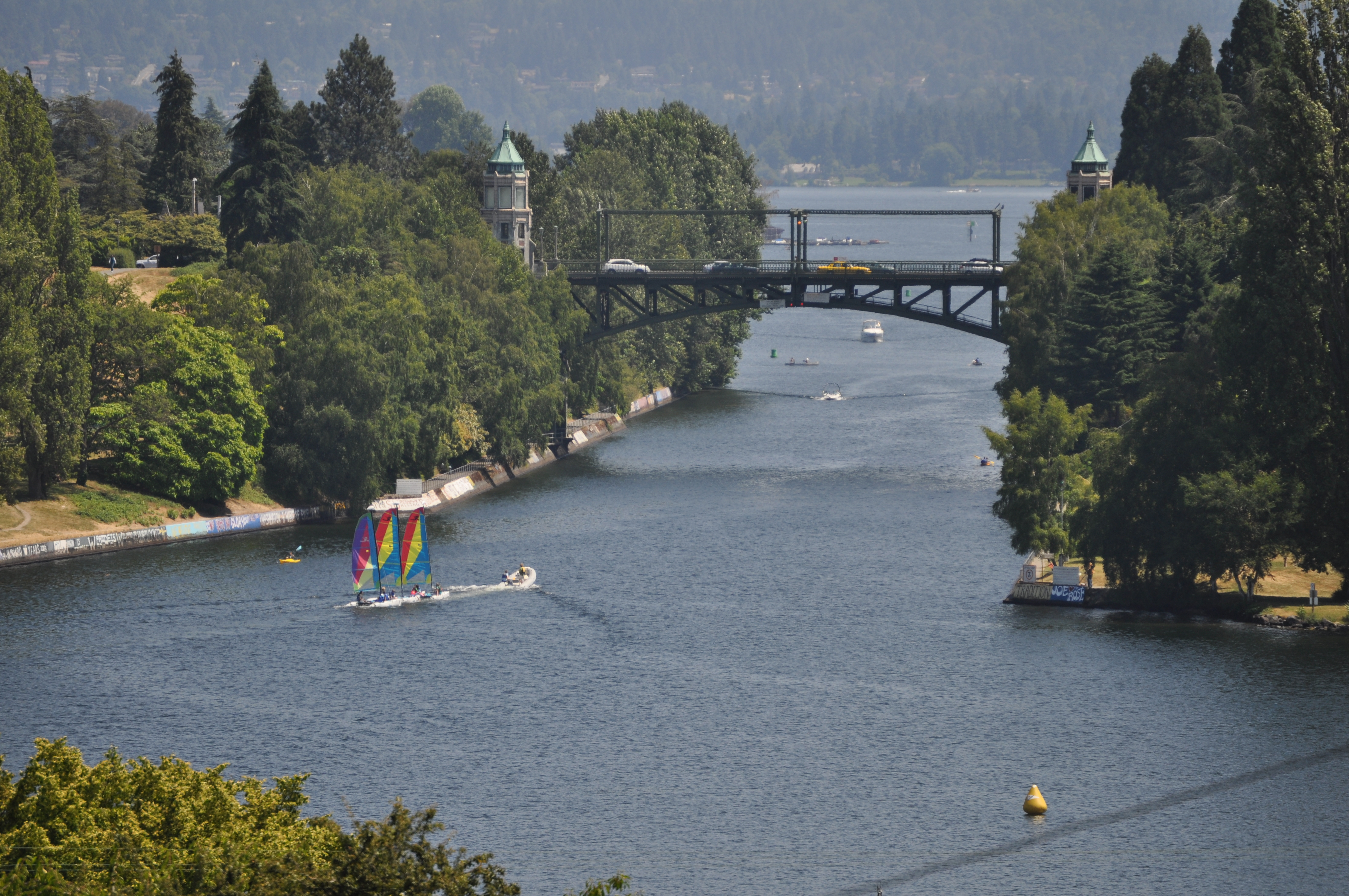 The Montlake Cut of the Lake Washington Ship Canal and Montlake Bridge, seen from the corner of E. Shelby St. and 10th Ave E. near the north end of Capitol Hill, Seattle, Washington.